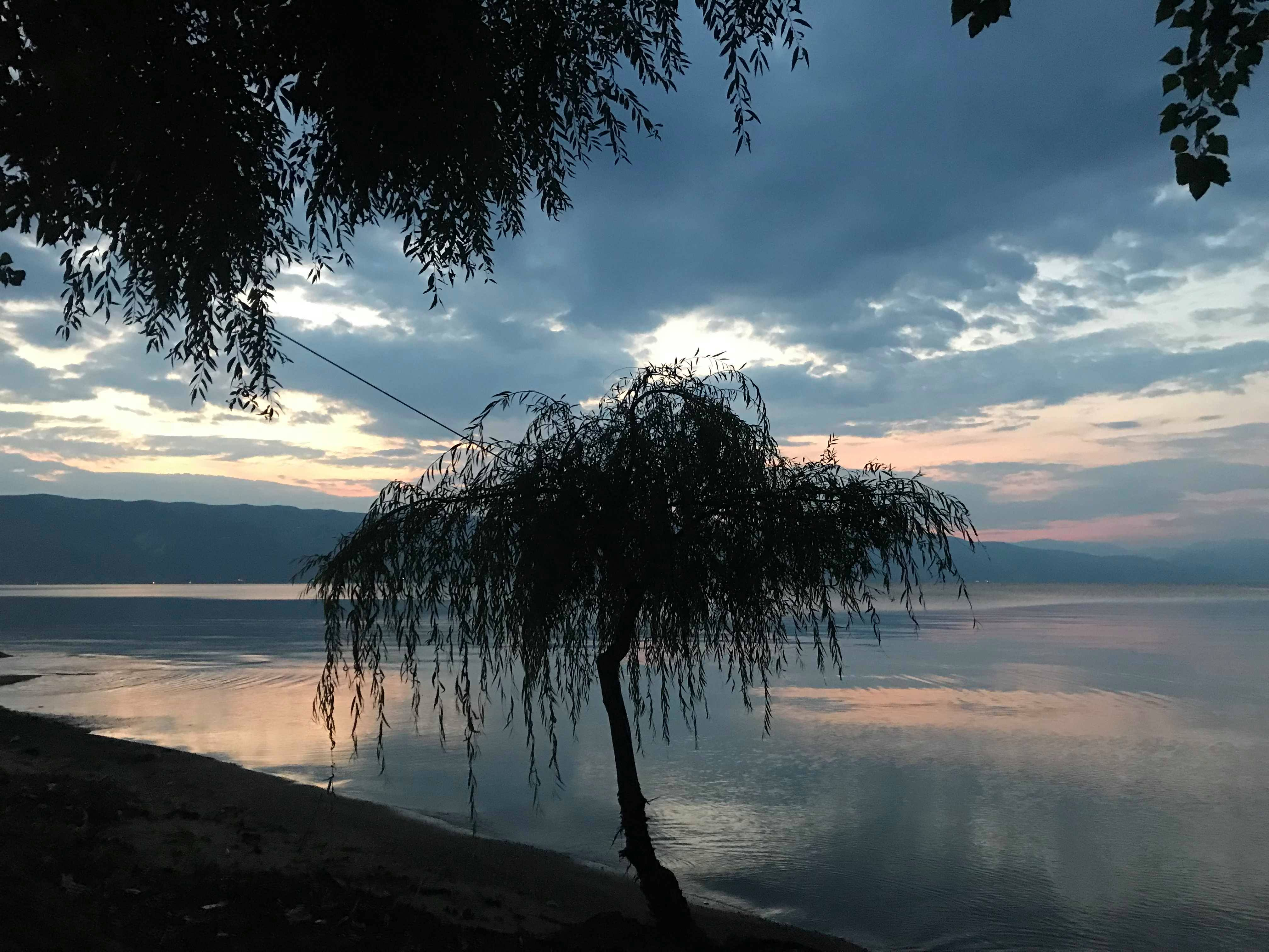 Tushemisht